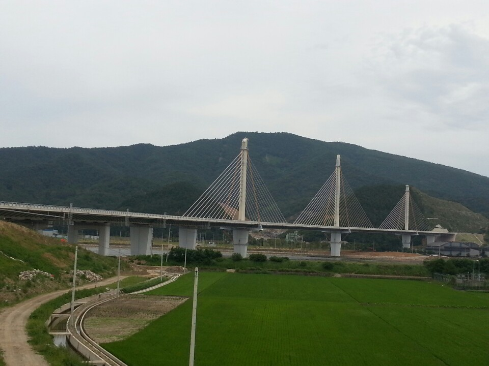 Sepung Bridge _View3